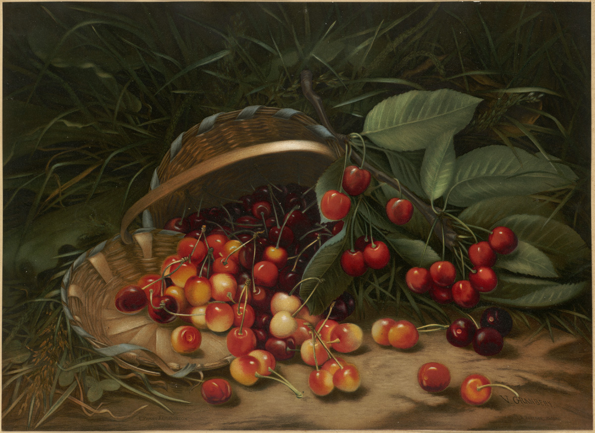 File name: 07_11_001006 Title: Cherries Creator/Contributor: Granberry, Virginia, 1831-1921 (artist); L. Prang & Co. (publisher) Date issued: 1861-1897 (approximate) Copyright date: Physical description note: Genre: Chromolithographs; Still life prints Location: Boston Public Library, Print Department Rights: No known restrictions Flickr data on 2011-08-06: Camera: Sinar AG Sinarback 54 FW, Sinar m License: CC BY 2.0 User: Boston Public Library BPL